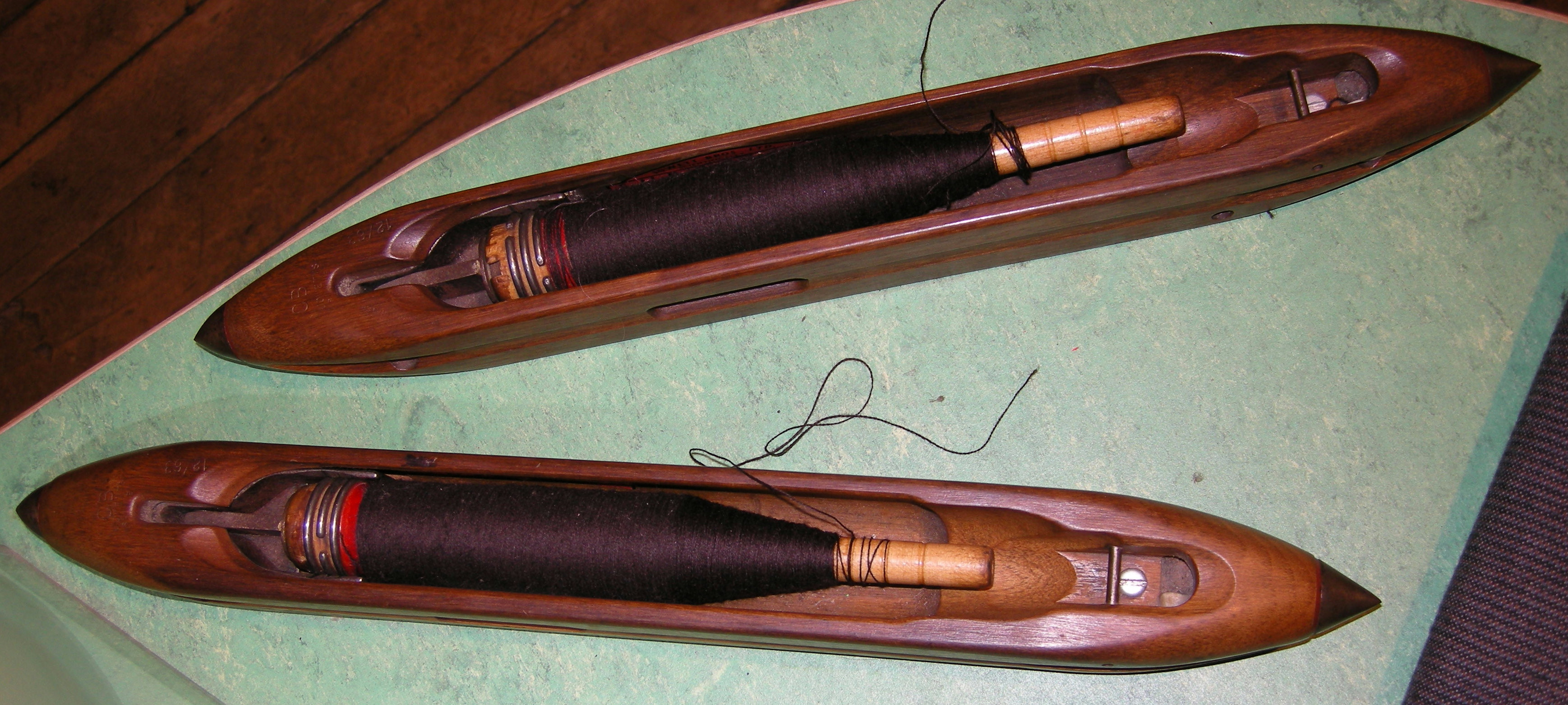 Flying shuttles in Bradford Industrial Museum, Bradford, West Yorkshire, England.